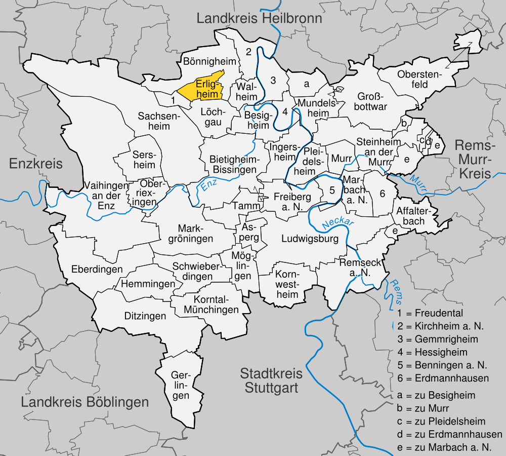 position of Erligheim within distict of Ludwigsburg, Baden-Württemberg, Germany